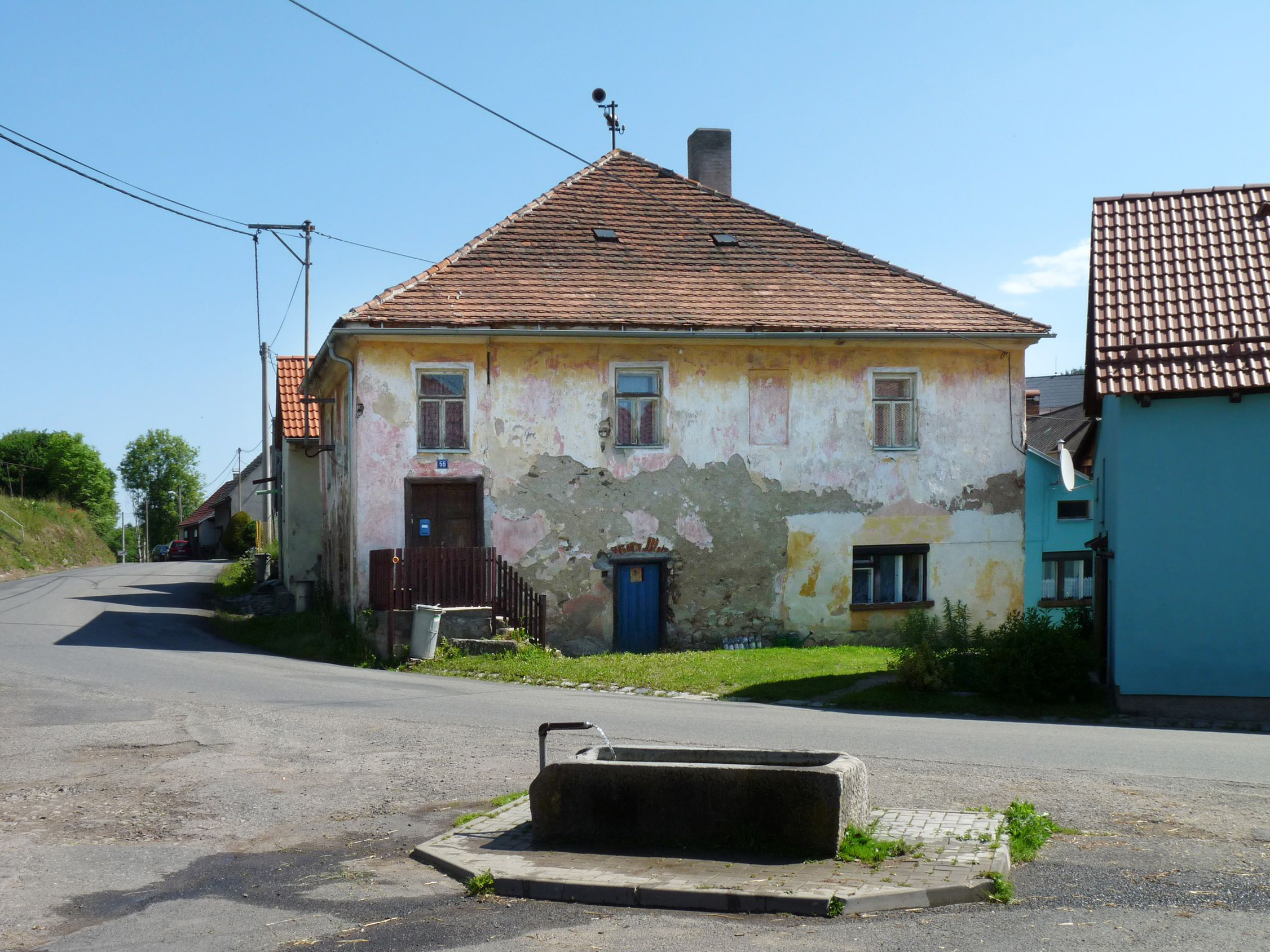 Former synagogue, house No 55, in the municipality of Podmokly, Klatovy District, Plzeň Region, Czech Republic.